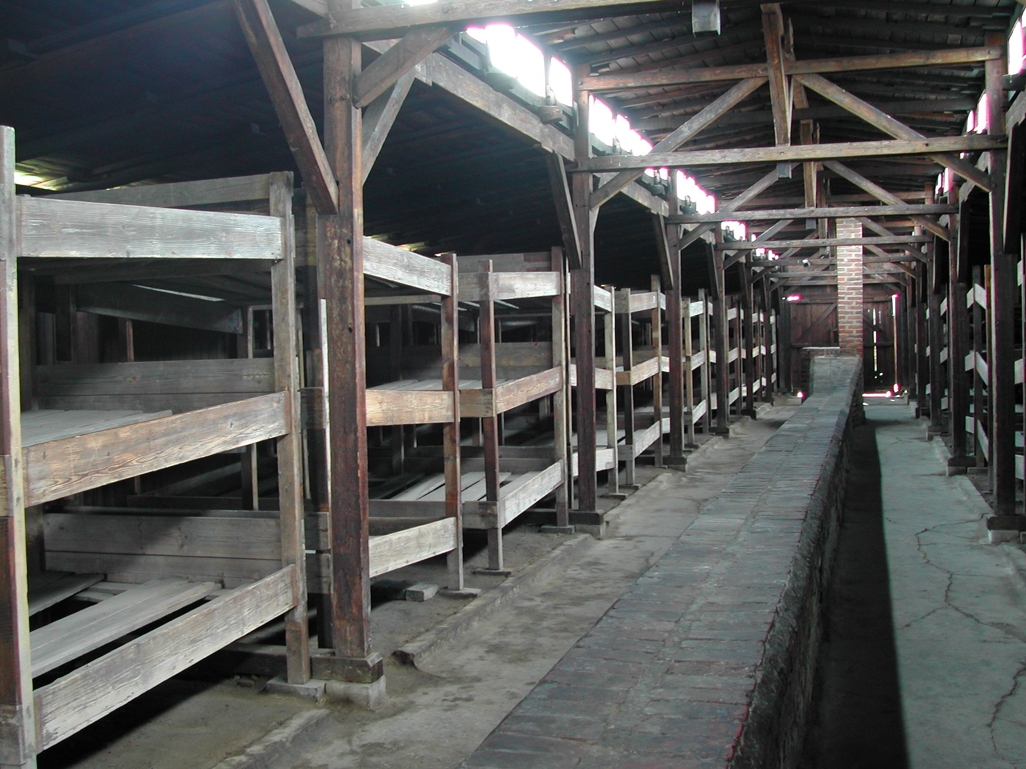 Auschwitz II-Birkenau: wooden bunks in the barracks